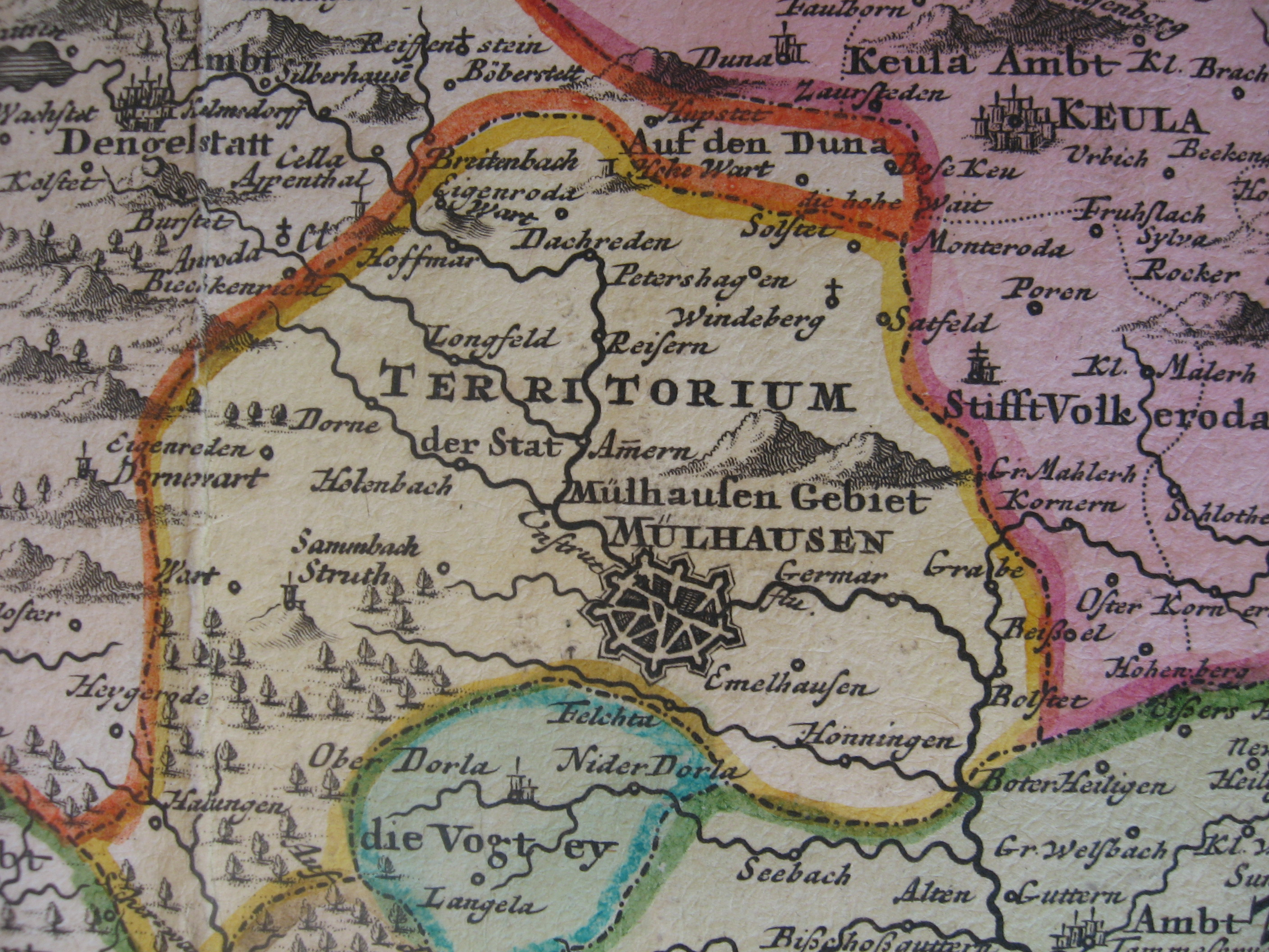 Mühlhausen, along with Nordhausen, was one of the two Free imperial cities of Thuringia from the Middle Ages to 1803. Cropped from a map of Thuringia printed by Johann Baptist Homann, circa 1725.